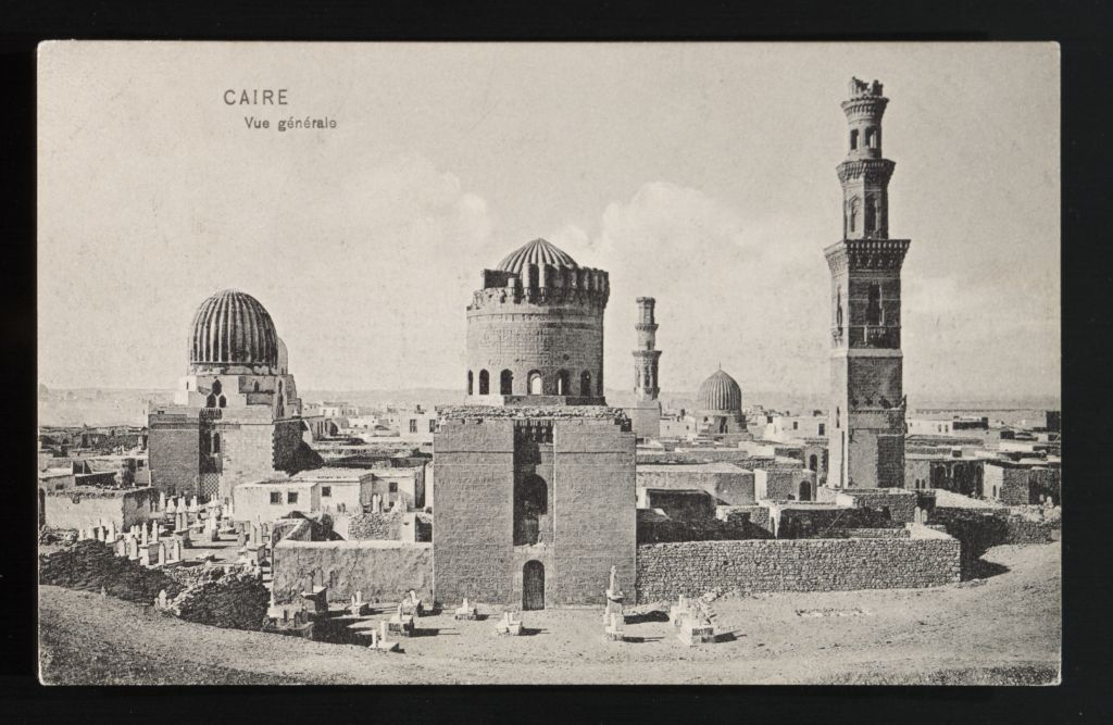 Aerial view of a large domed building